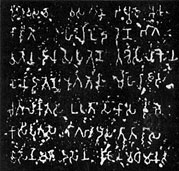 This specific image is not a photograph but a recreated Photoshop rendition true to the original incription of the Heliodorus column -created by Heliodorus, ambassador of the Indo-Greek king Antialcidas BC. An archaeological discovery. It reads as follows: 1) Devadevasu Va[sude]vasa Garudadhvajo ayam 2) Karito ia Heliodorena bhaga 3) Vatena Diyasa putrena Takhasilakena 4) Yonadatena agatena maharajasa 5) Amtalikitasa upa[m]ta samkasam-rano 6) Kasiput[r]asa [Bh]agabhadrasa tratarasa 7) Vasena [chatu]dasena rajena vadhamanasa " This Garuda-column of Vasudeva (Visnu), the god of gods, was erected here by Heliodorus, a worshipper of Vishnu, the son of Dion, and an inhabitant of Taxila, who came as Greek ambassador from the Great King Antialkidas to King Kasiputra Bhagabhadra, the Savior, then reigning prosperously in the fourteenth year of his kingship." and goes on ... 1) Trini amutapadani-[su] anuthitani 2) nayamti svaga damo chago apramado "Three immortal precepts (footsteps)..when practiced lead to heaven-self restraint, charity, conscientiousness."